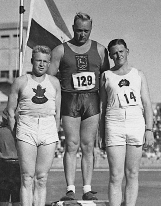 Empire Games - victory dais for men's shot put